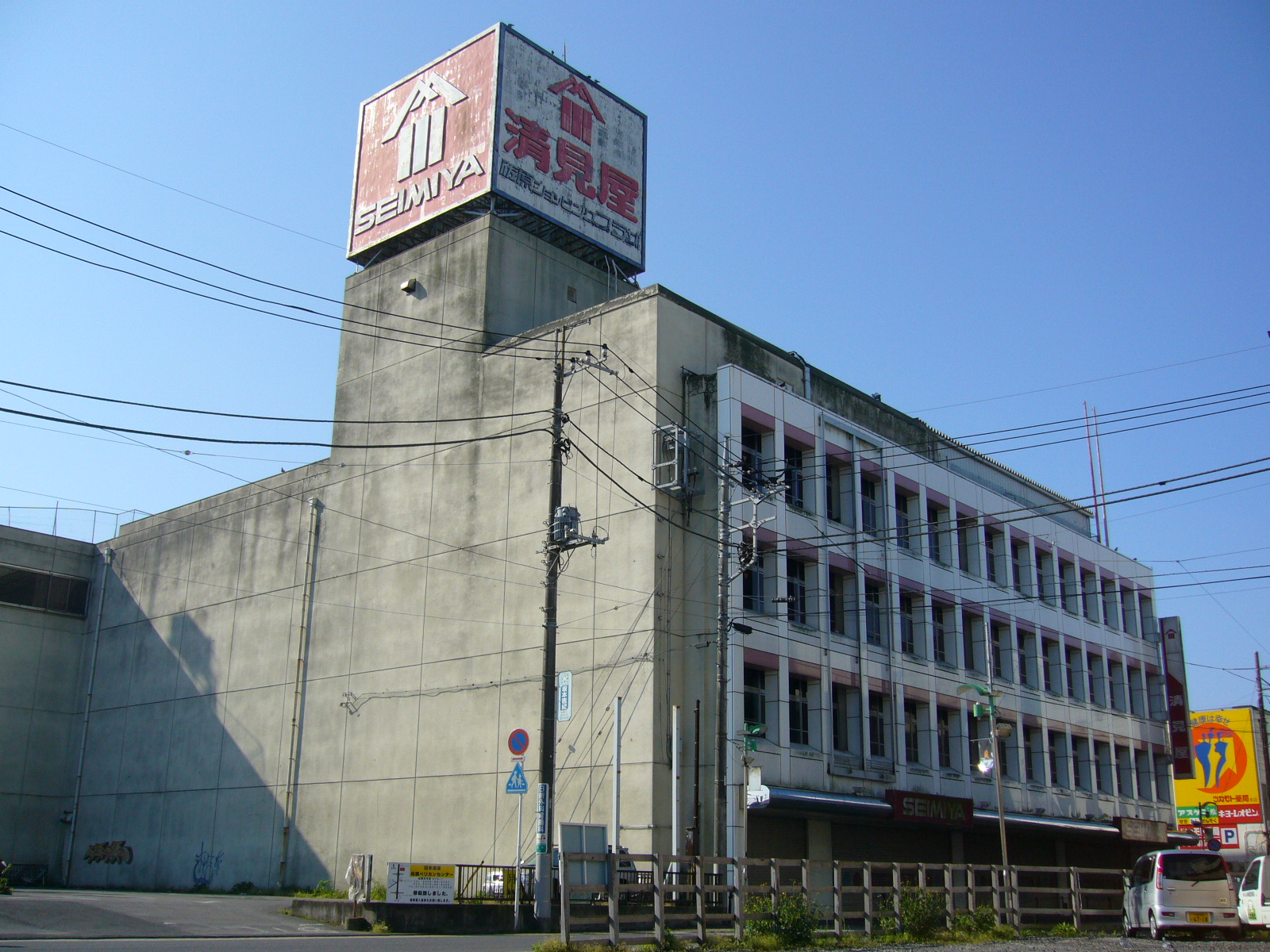 close down seimiya department store ,katori-city,japan